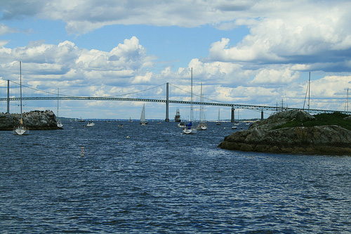 Bridge and Narragansett Bay